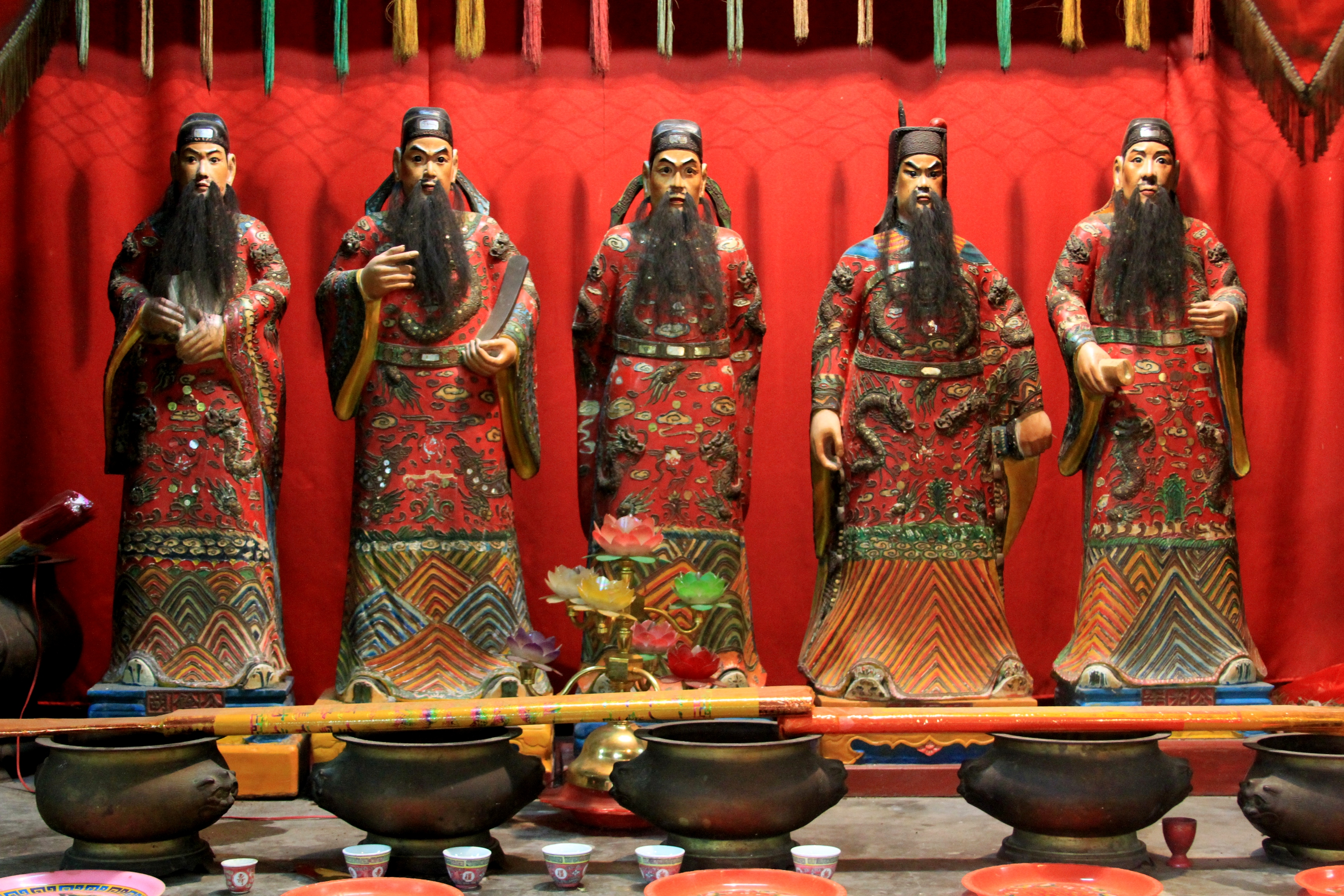 Photograph of the statues of the five officials in the Temple of the Five Lords, Haikou, Hainan, China.